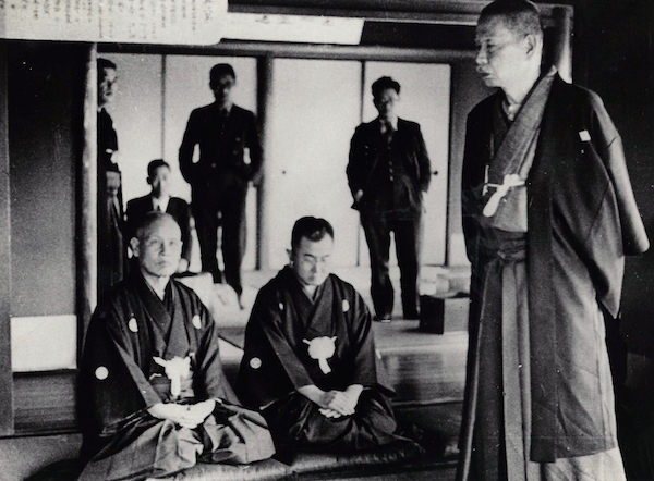 The 将棋名人退就位式 Meijin Resignation Ceremony in February 1938. The three people pictured in the foreground from left to right are 関根金次郎 Kinjirō Sekine, 木村義雄 Yoshio Kimura, and 小菅剣之助 Kenosuke Kosuge. Here, Sekine, the last heritary Lifetime, resigned his position as Meijin to make way for the first tournament-determined (Real Strength) Meijin, which was Kimura.